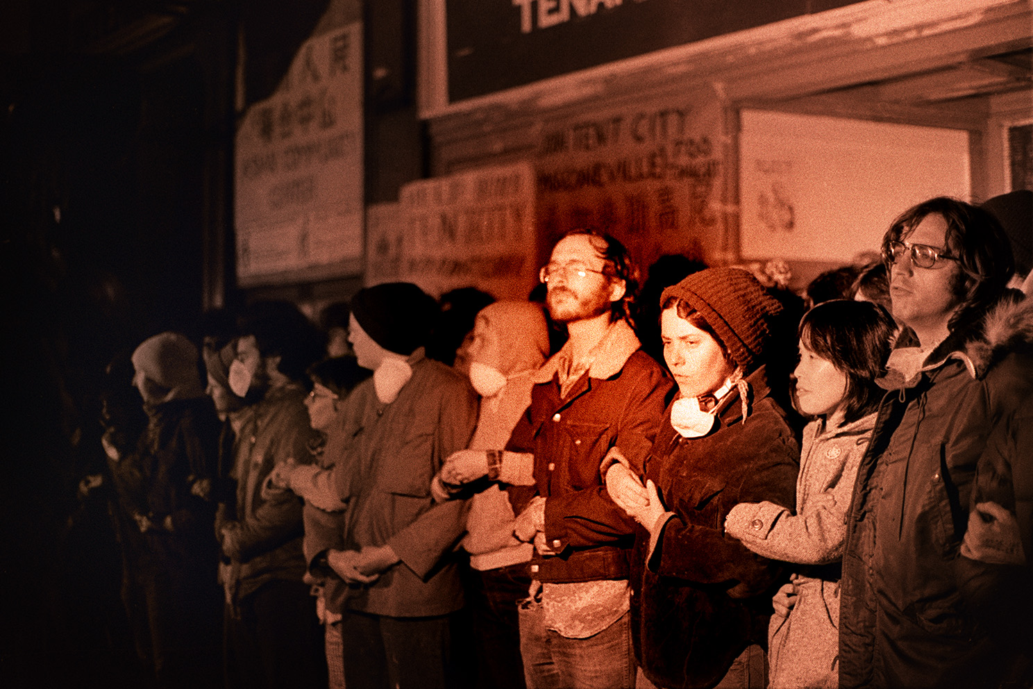 Demonstrators including Wendy Yoshimura, second from right, link arms in front of the International Hotel on 848 Kearny and Jackson Streets in San Francisco on August, 4, 1977. Photo by Nancy Wong